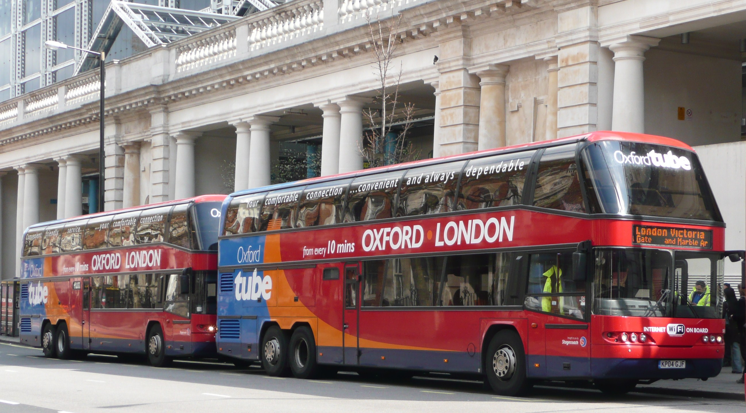 Two Stagecoach Neoplan Skyliners at the terminus of the Oxford Tube service in Buckingham Palace Road, London